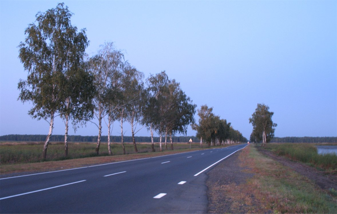 M10 highway in Belarus